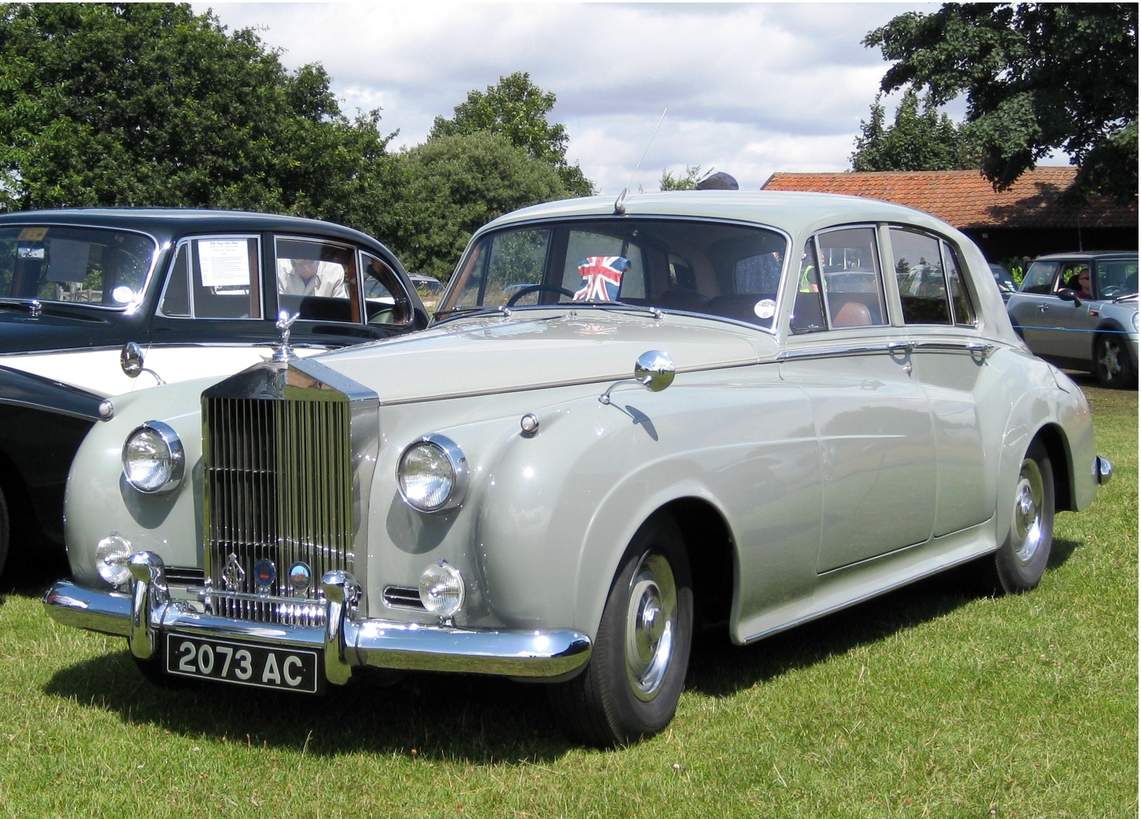 Rolls Royce Silver Cloud Series 1. The engine size and date of first registration suggest that this must have been one of the last Silver Cloud Series Is.